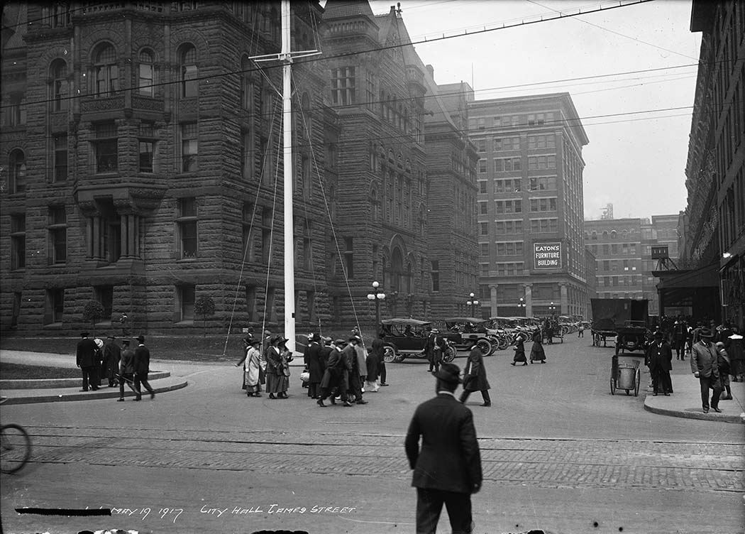 James Street at Queen Street West, Toronto, Ontario, Canada. (Then) City Hall in foreground, Eaton's Furniture Store (later the Eaton's Annex) in background.